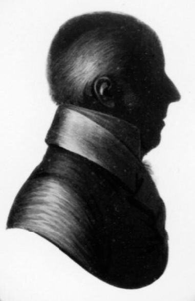 Silhouette on plaster, portrait of John Mayo (1761–1818), English physician.